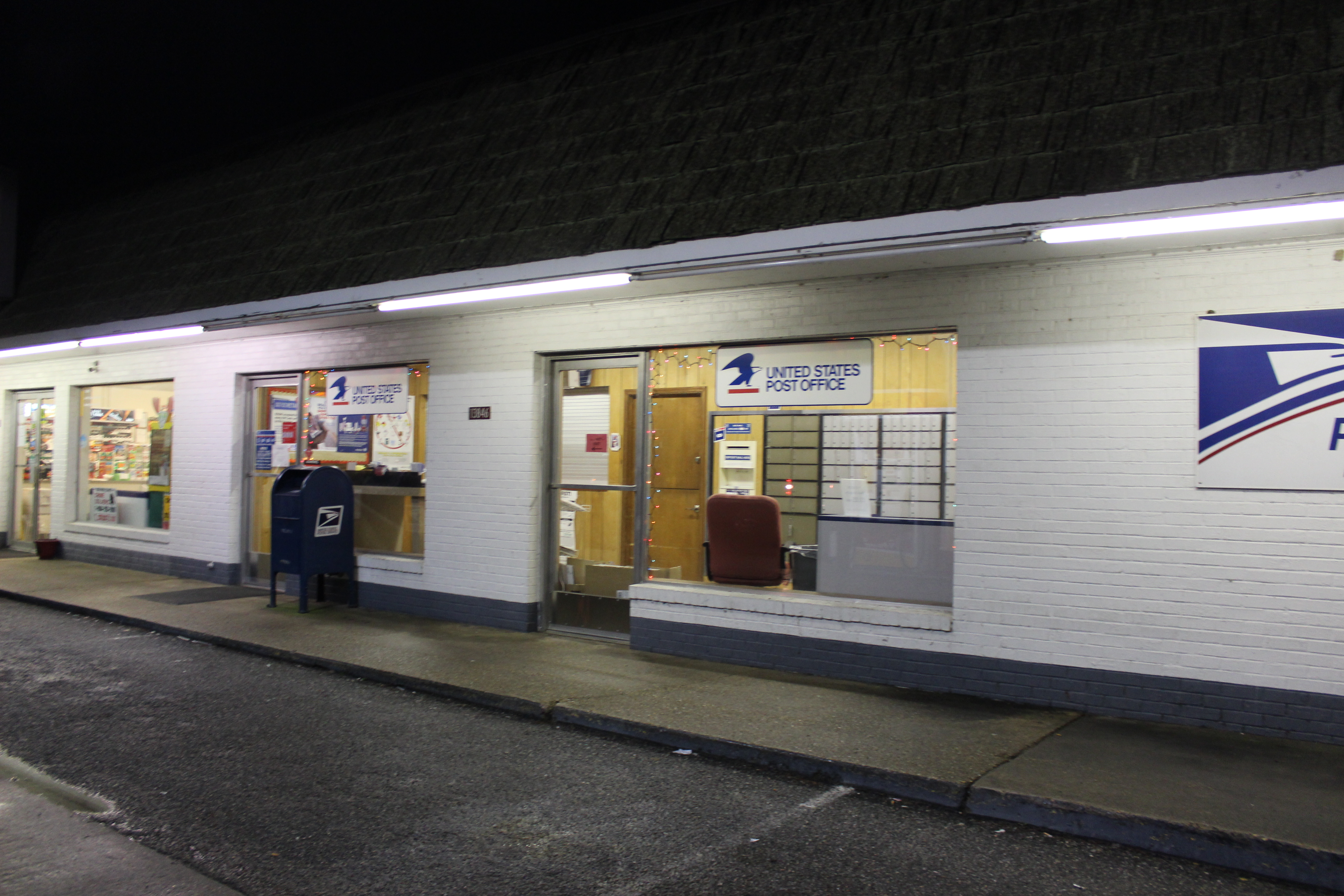 This is a U.S. Post Office, located at 13846 John Clayton Memorial Highway, North, VA, next to North Star Market.